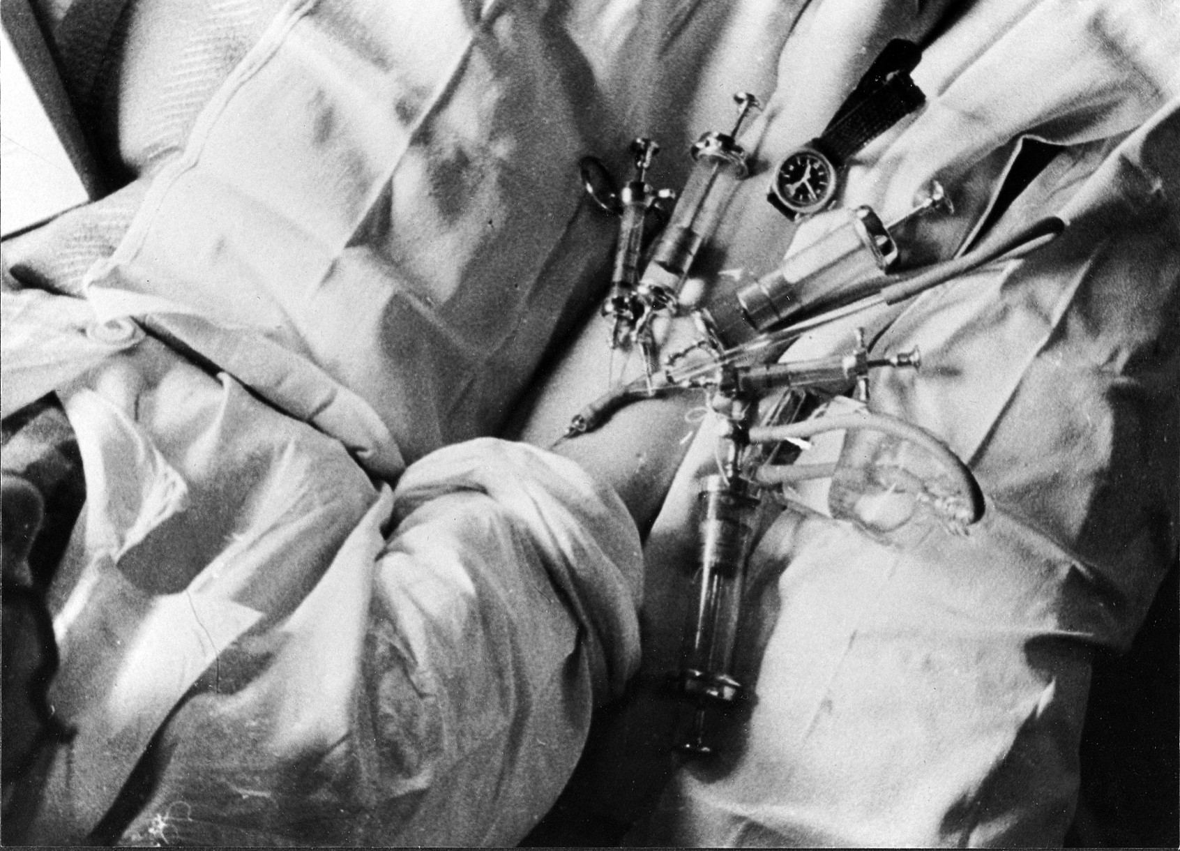 Photograph of the injection into Dr Widdowson's arm of iron, calcium and magnesium. Archives & Manuscripts